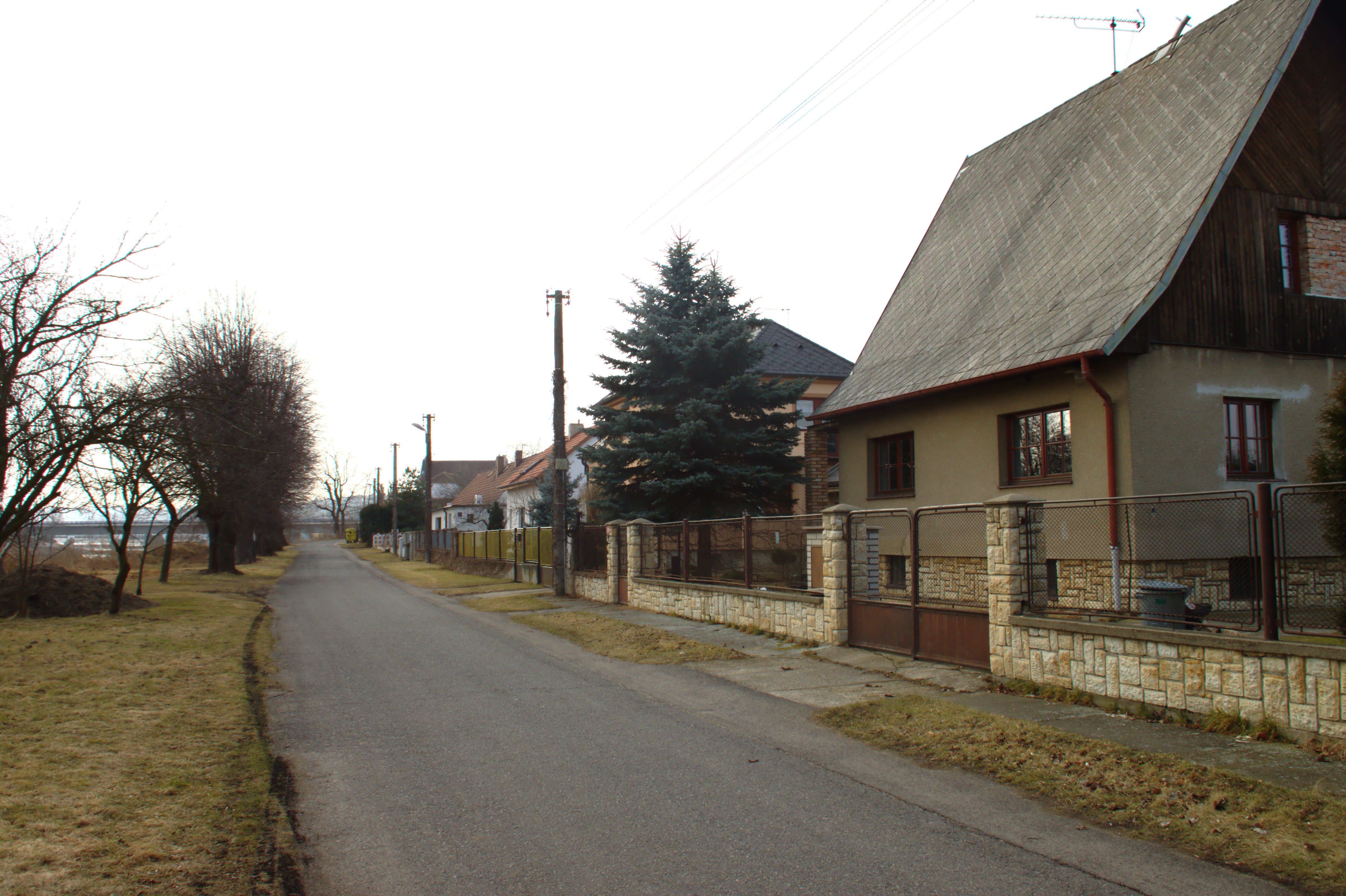 The village of Miřejovice, located near Nová Ves and Nové Ouholice at the Vltava riverbank, CZ